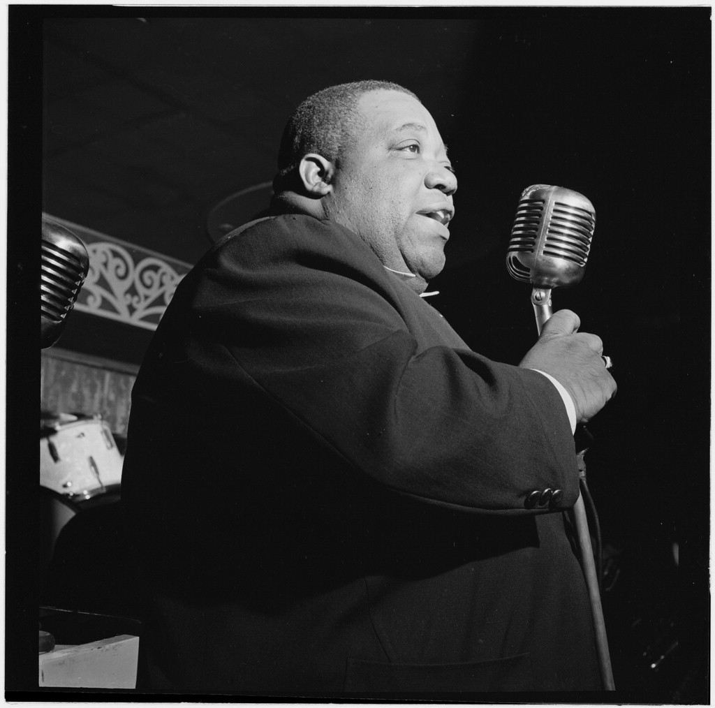 Jimmy Rushing, Aquarium, NYC, ca August 1946. Photography by William P. Gottlieb.